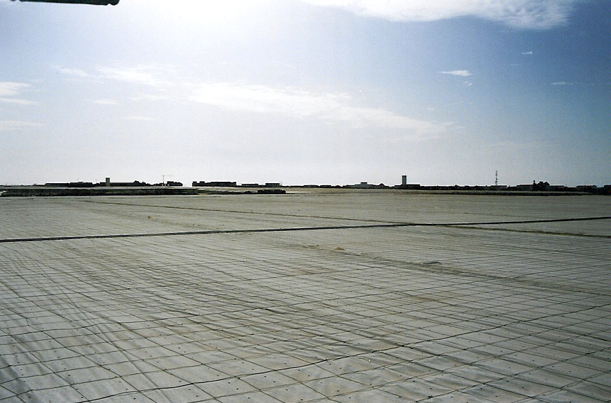 Greenhouses in San Agustín, El Ejido, Almería